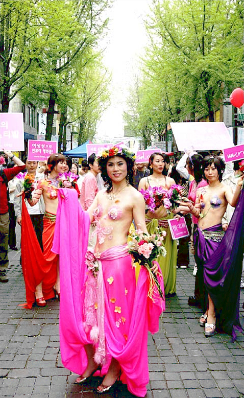 Image Specific: 30 Apr 2006 Seoul Korea Love Hug Festival ([The] boards say: Feminity = No violence, No War, Human being's future)